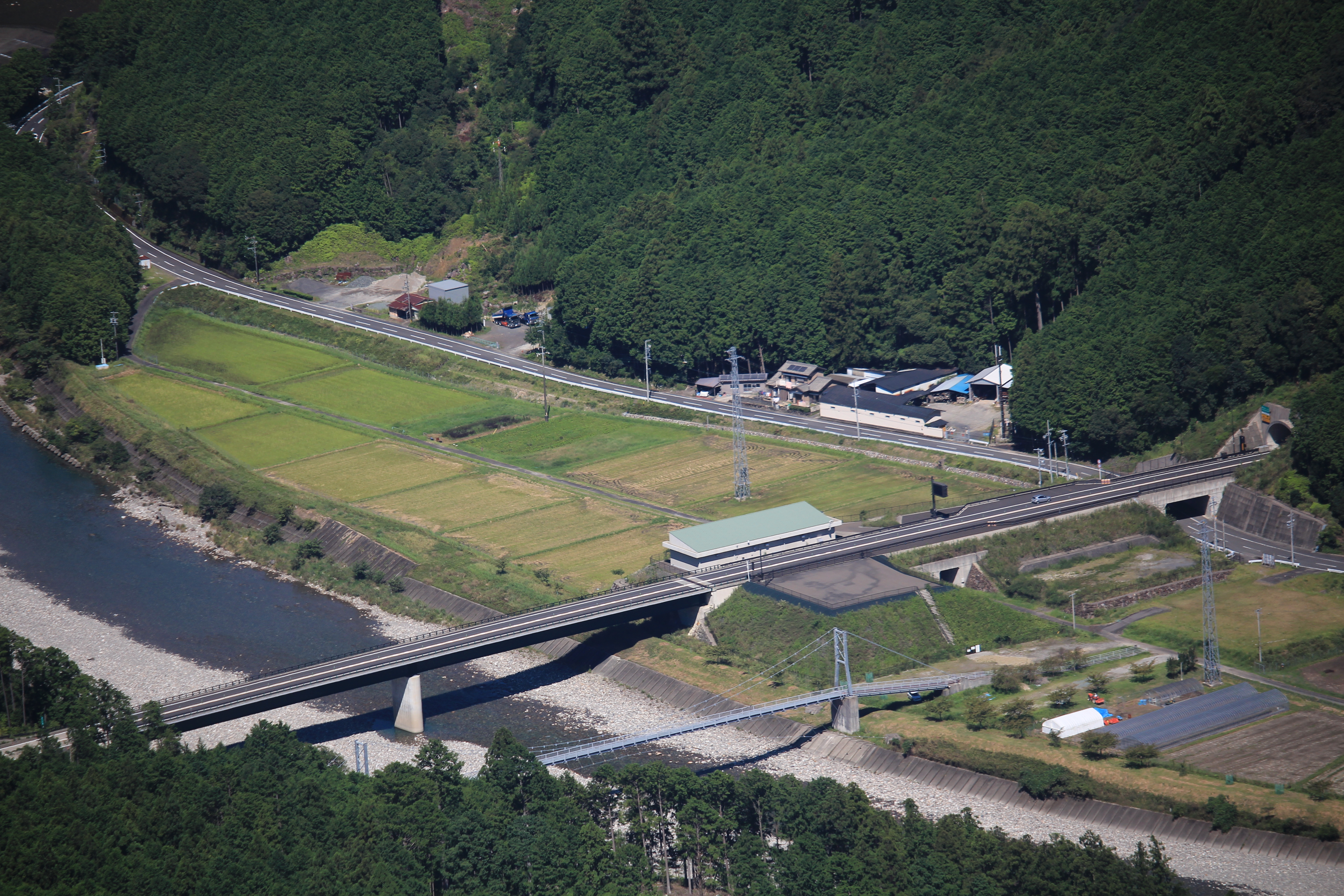 Choshi River seen from Mount Tengura in Kihoku, Mie prefecture, Japan.